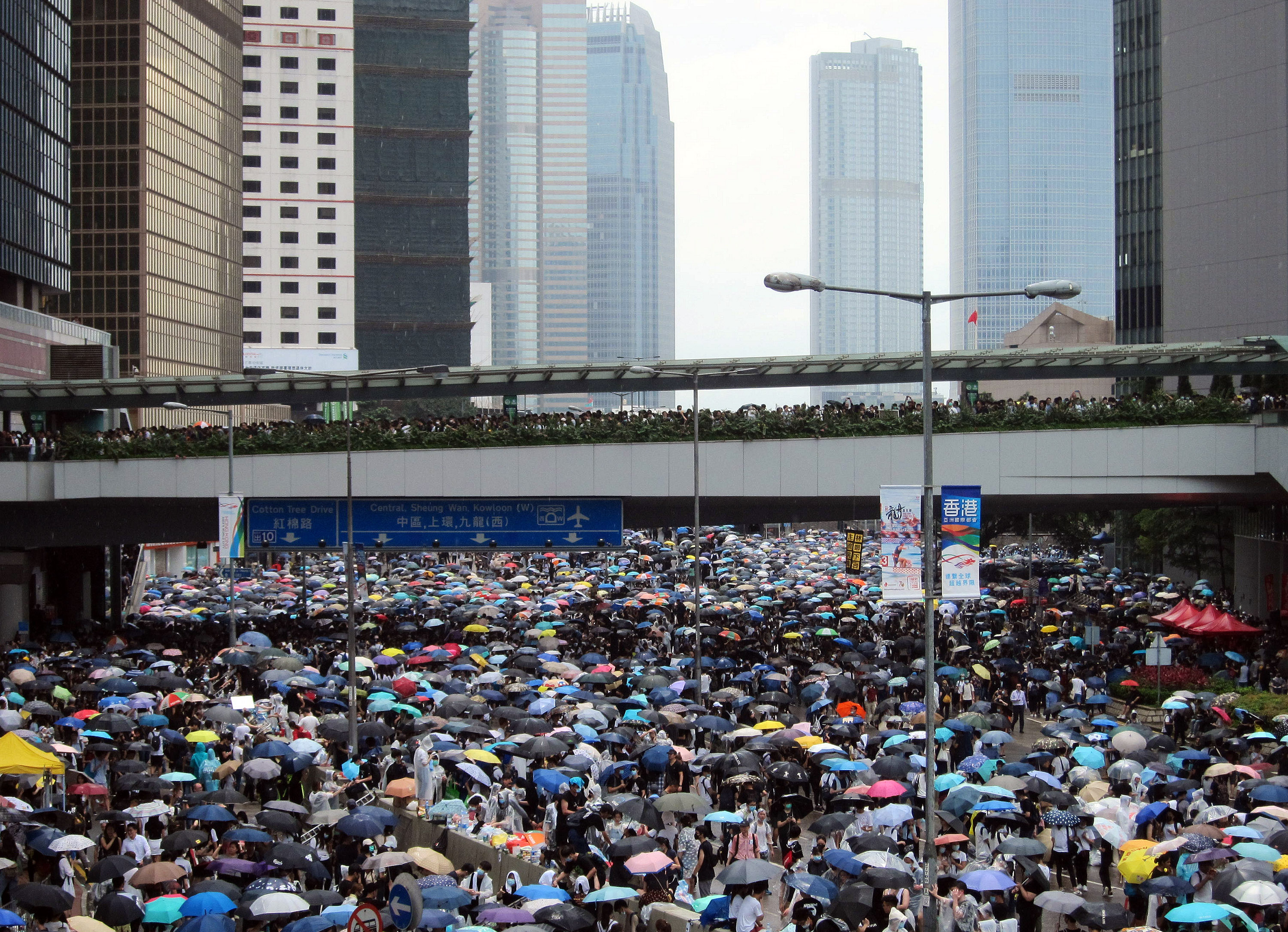 Hong Kong protesters demonstrating against the government's China extradition bill. Pictured on Harcourt Road, Admiralty, Hong Kong at 13:30 on 12 June 2019, adjacent to the Central Government Complex.